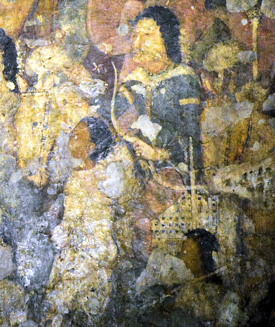 Ajanta Cave 17 horseman holding recurve bow. Another view.